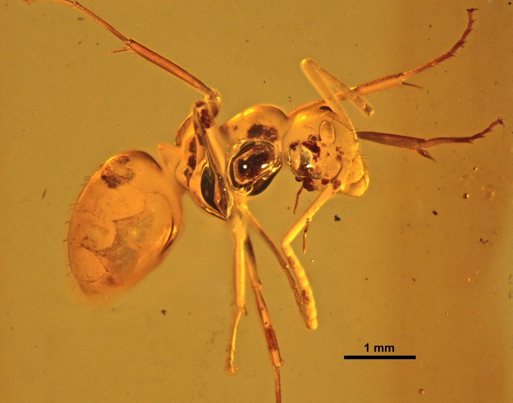 Profile view of an Yantaromyrmex constricta worker. Specimen MBI2299